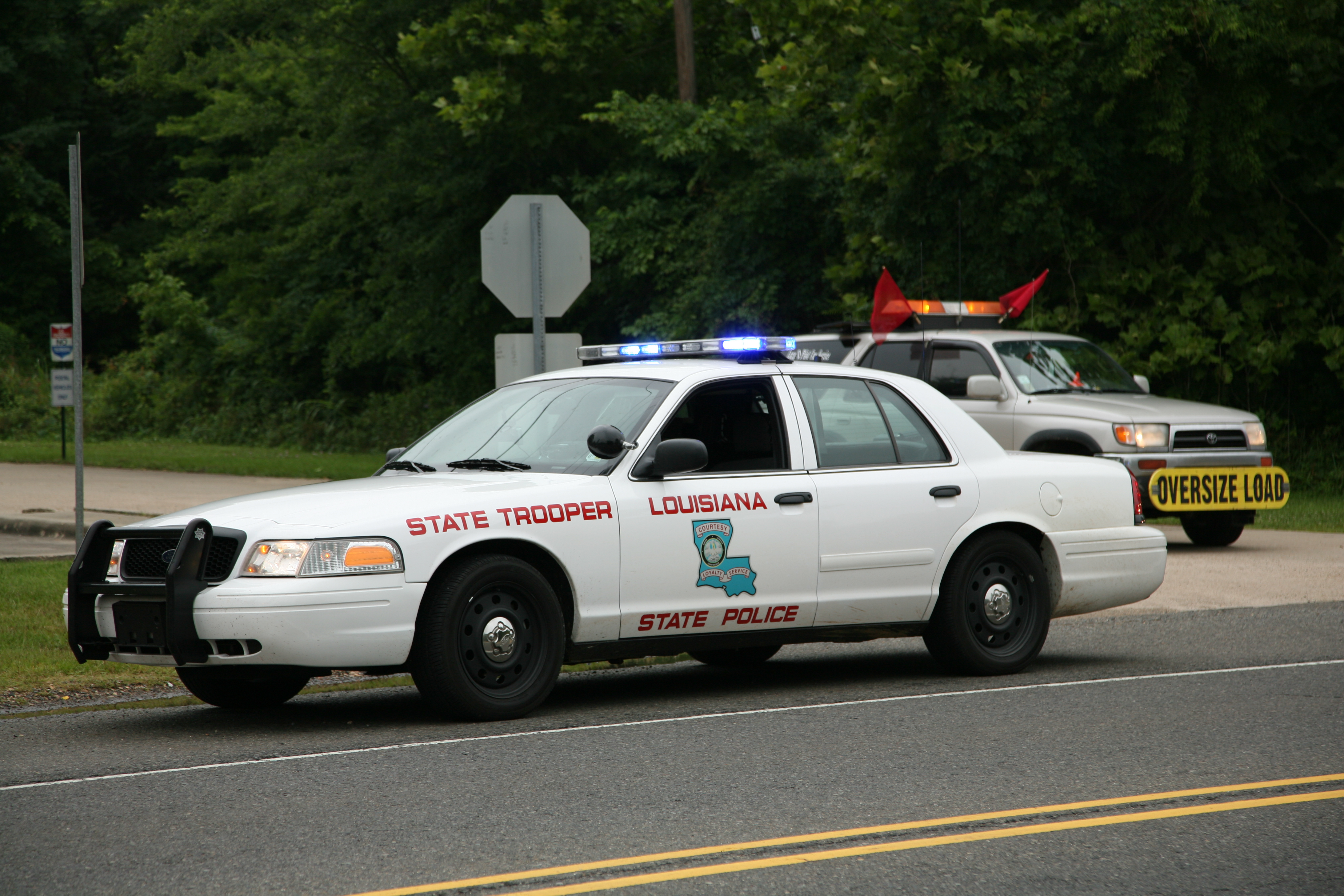 Louisiana State Trooper in Bethany, LA